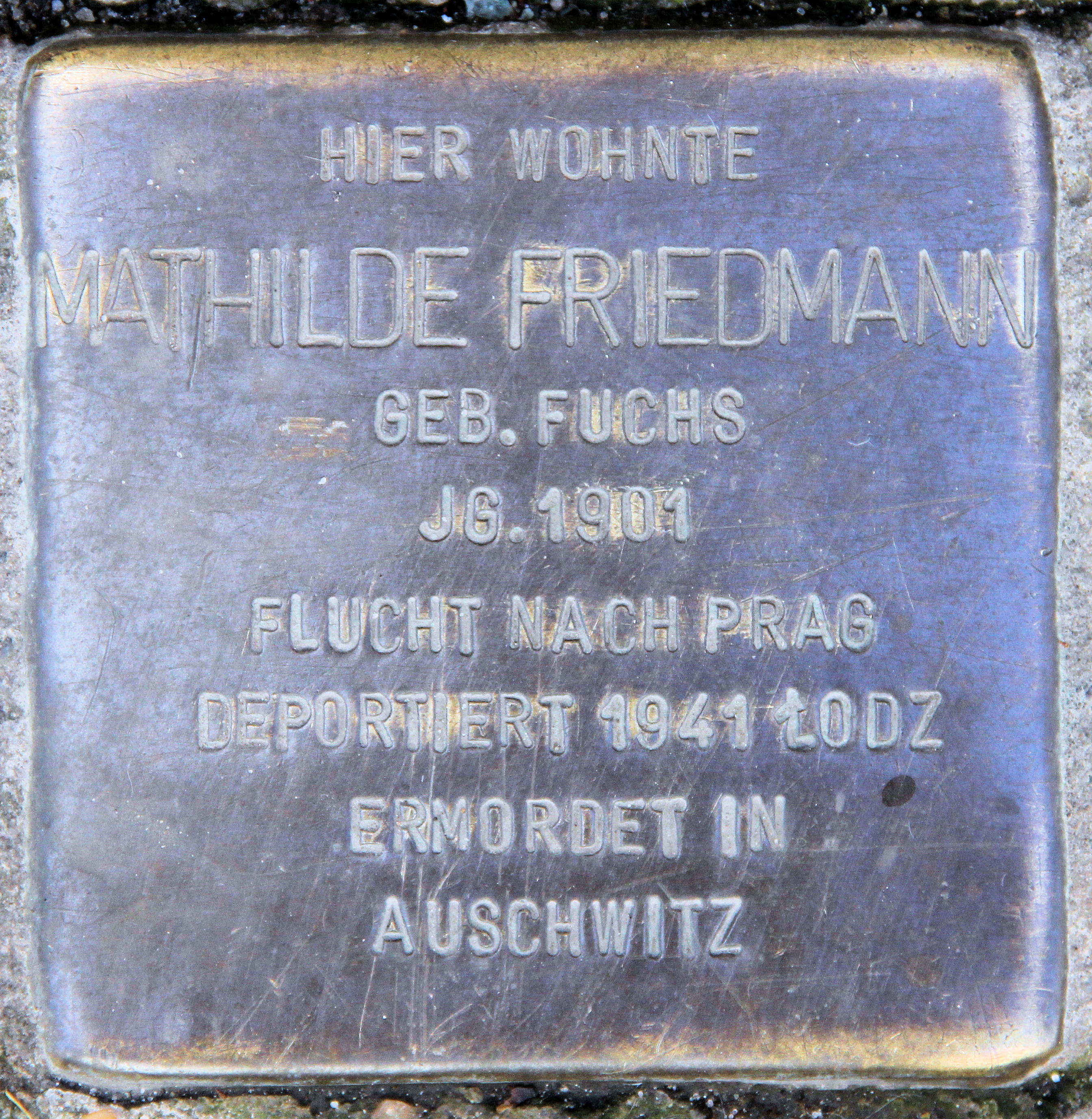 "Stolperstein" (stumbling block), Mathilde Friedmann, Paderborner Straße 9, Berlin-Wilmersdorf, Germany